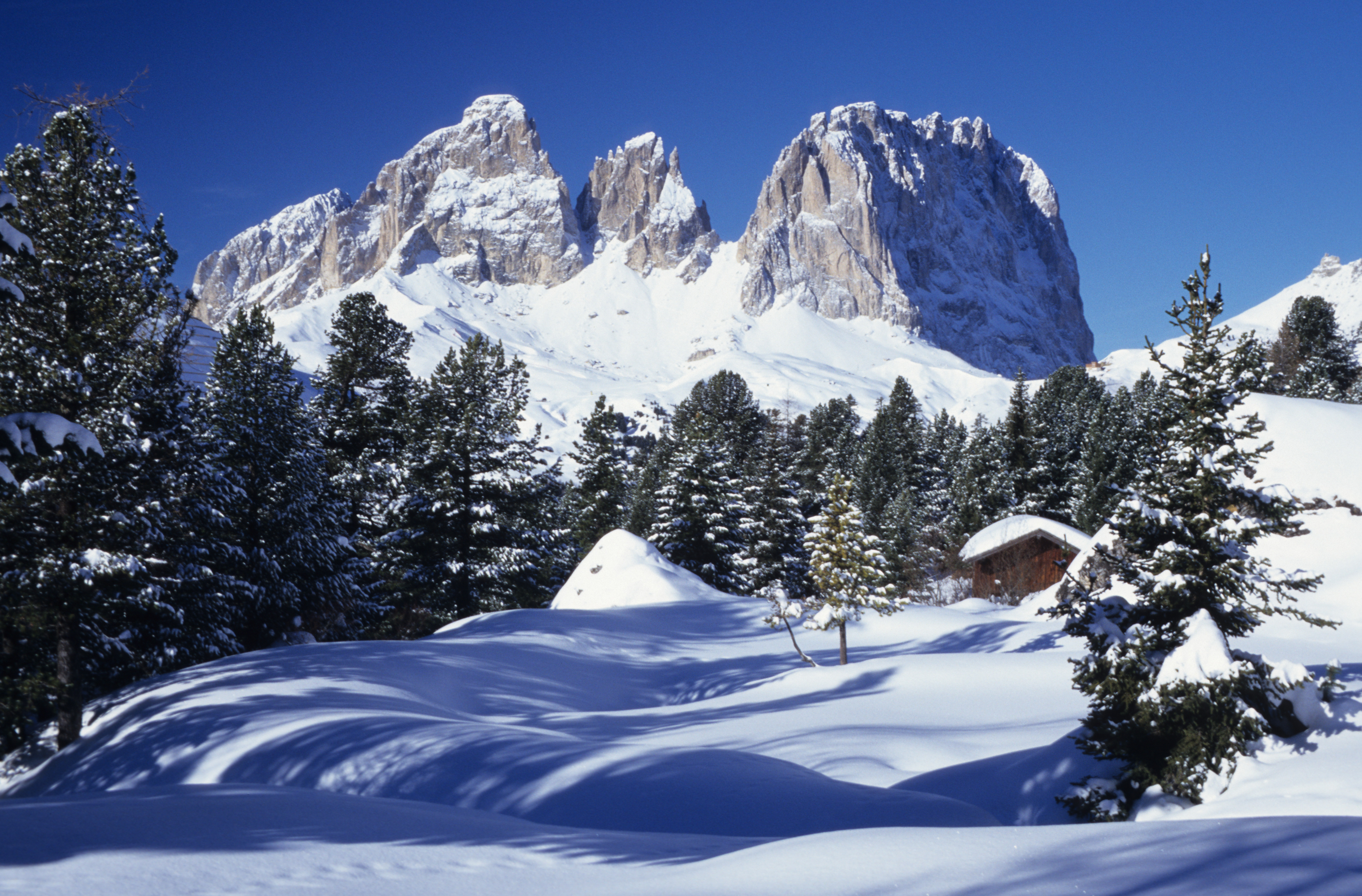 Sassolungo (Trentino, Italy) view from Passo Pordoi.